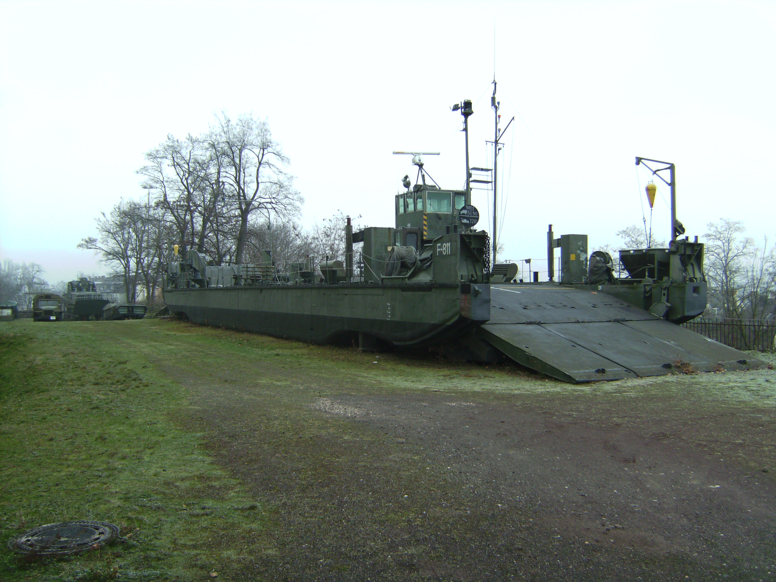 German Army Bodan Ferry